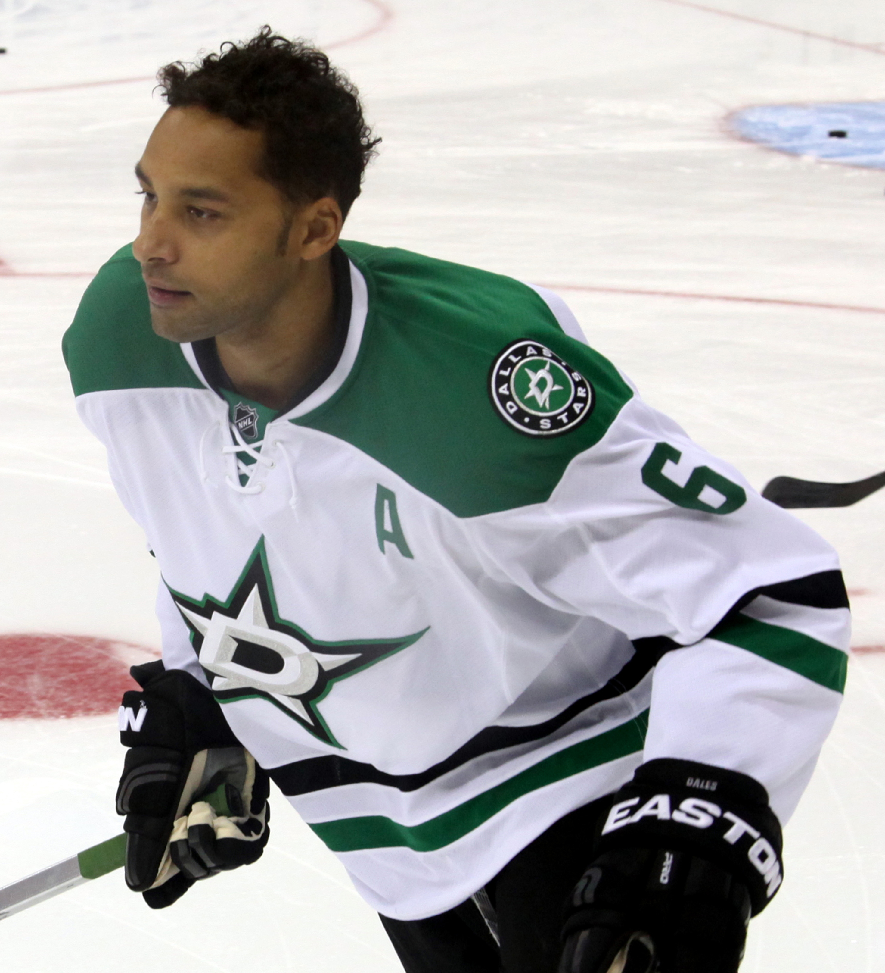 Trevor Daley in October 2014.